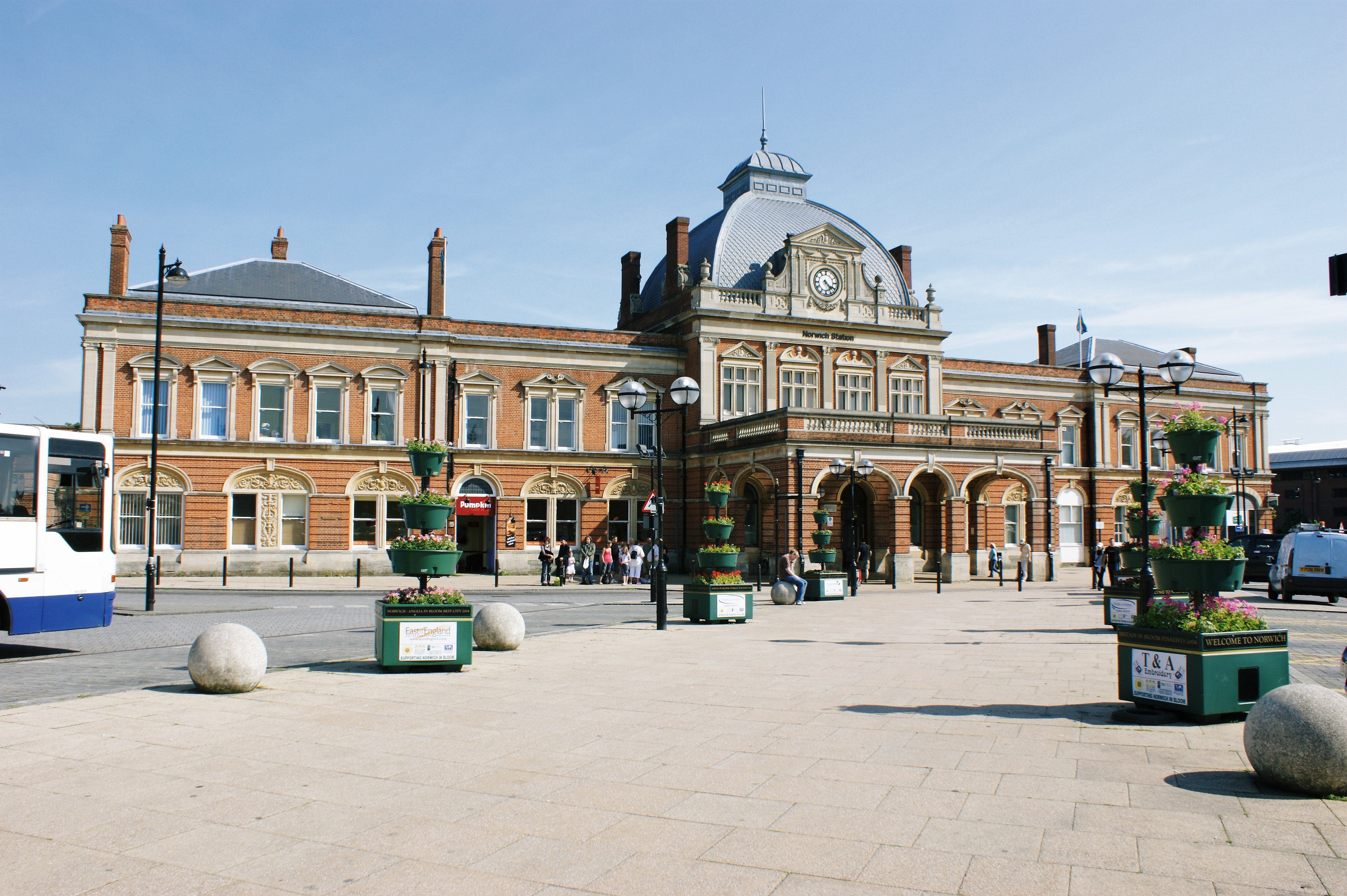 Norwich Thorpe station, 06/08.